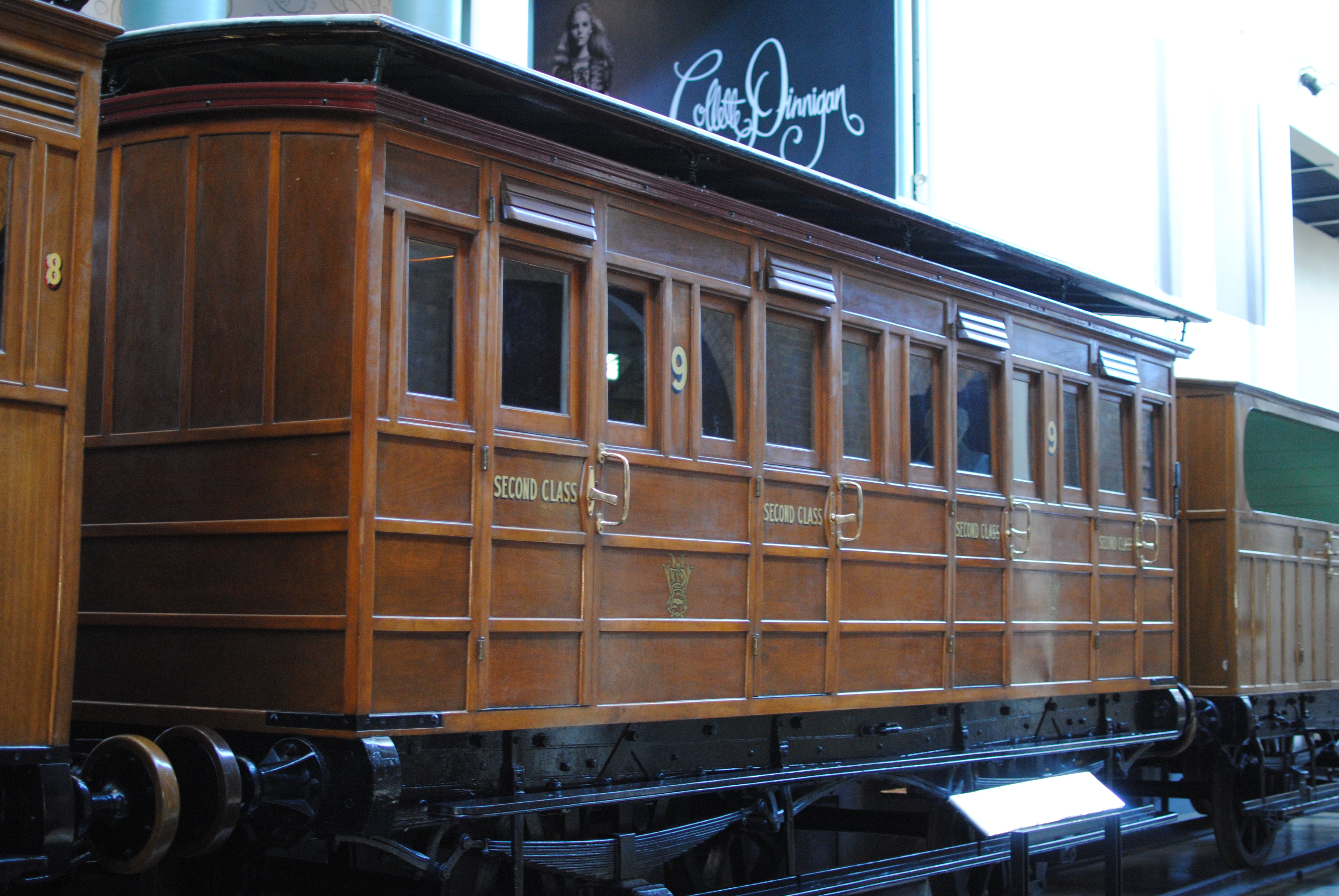 in the Powerhouse Museum, Sydney, NSW, Australia. [Camera's clock set to UTC]